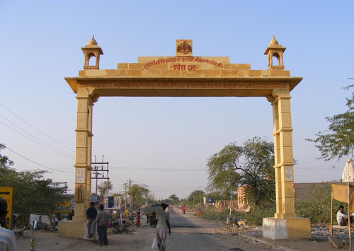 Singh Dwar.